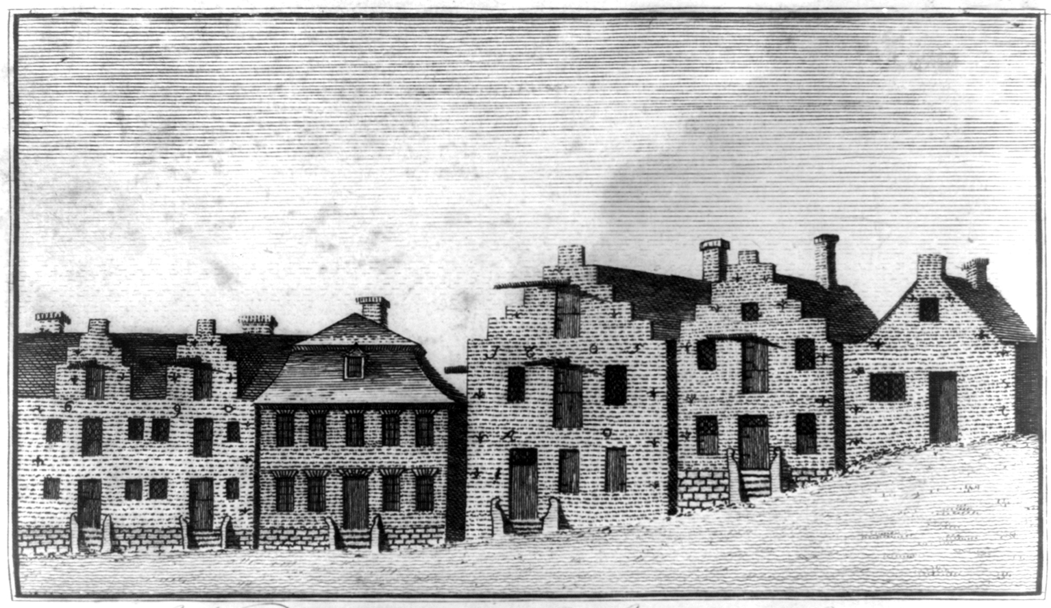 An etching of Dutch-style rowhouses in Albany, New York, United States